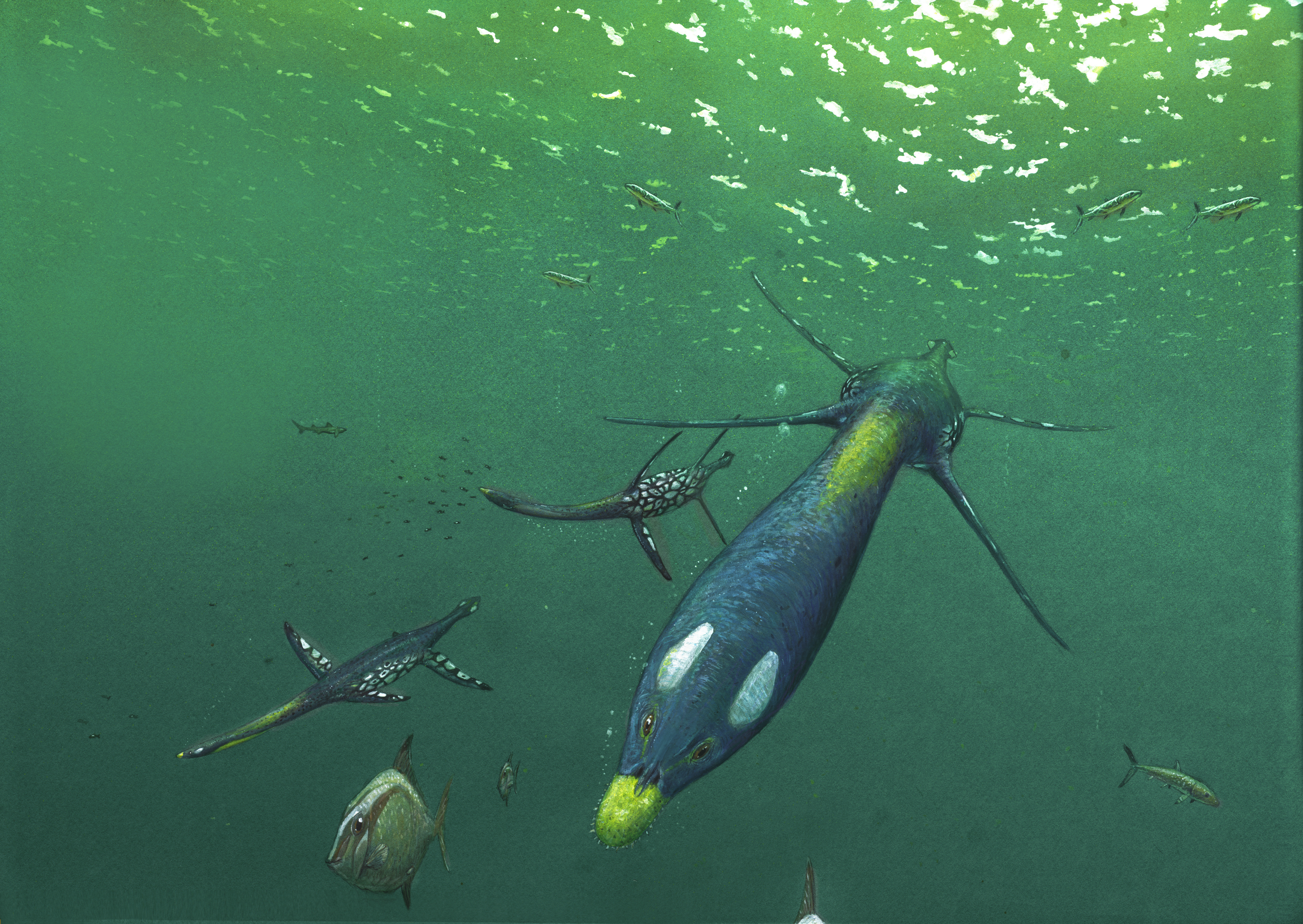 A group of Brancasaurus brancai in their natural habitat together with some pycnodontiformes, Caturus and Hybodus in the far background